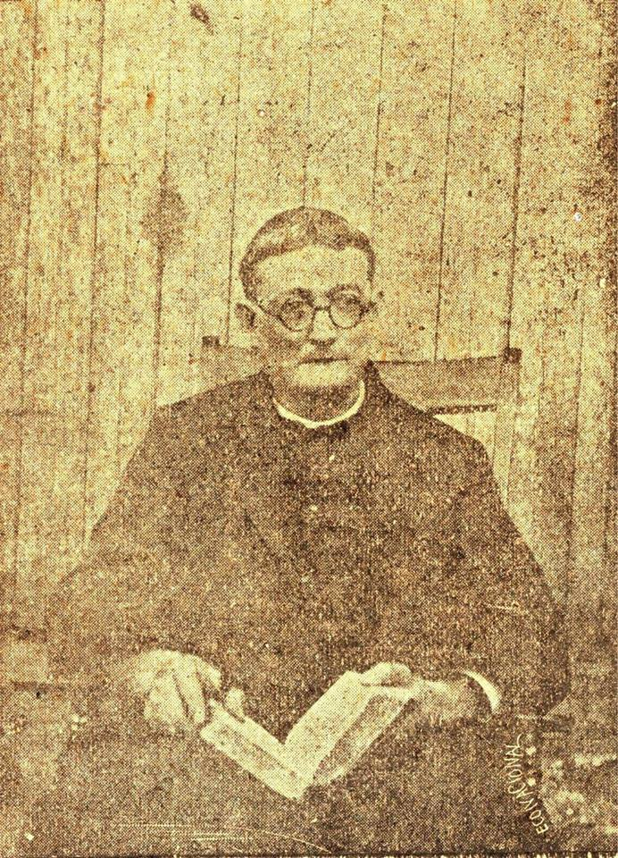 Foto del pbro. Mariano Dubón leyendo.